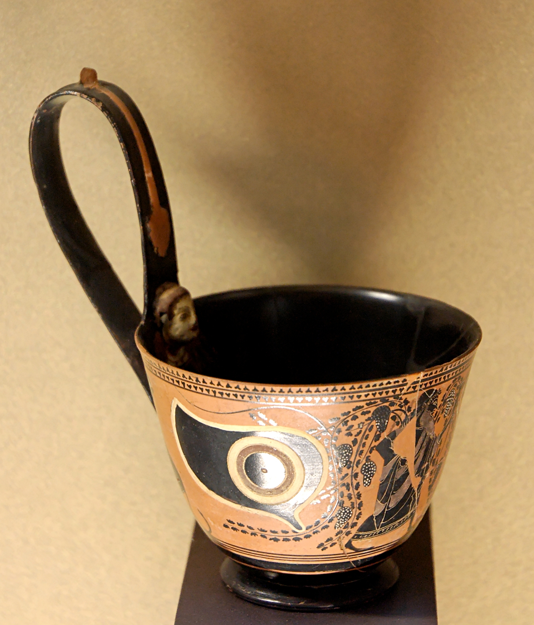 Dionysos and a maenad. Attic black-figure kyathos, ca. 550–540 BC.